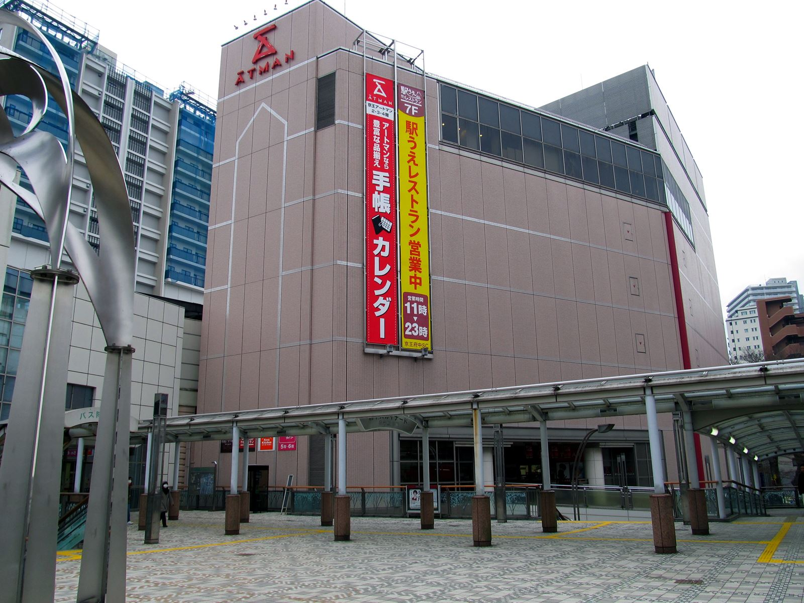 Fuchu station. Tokyo